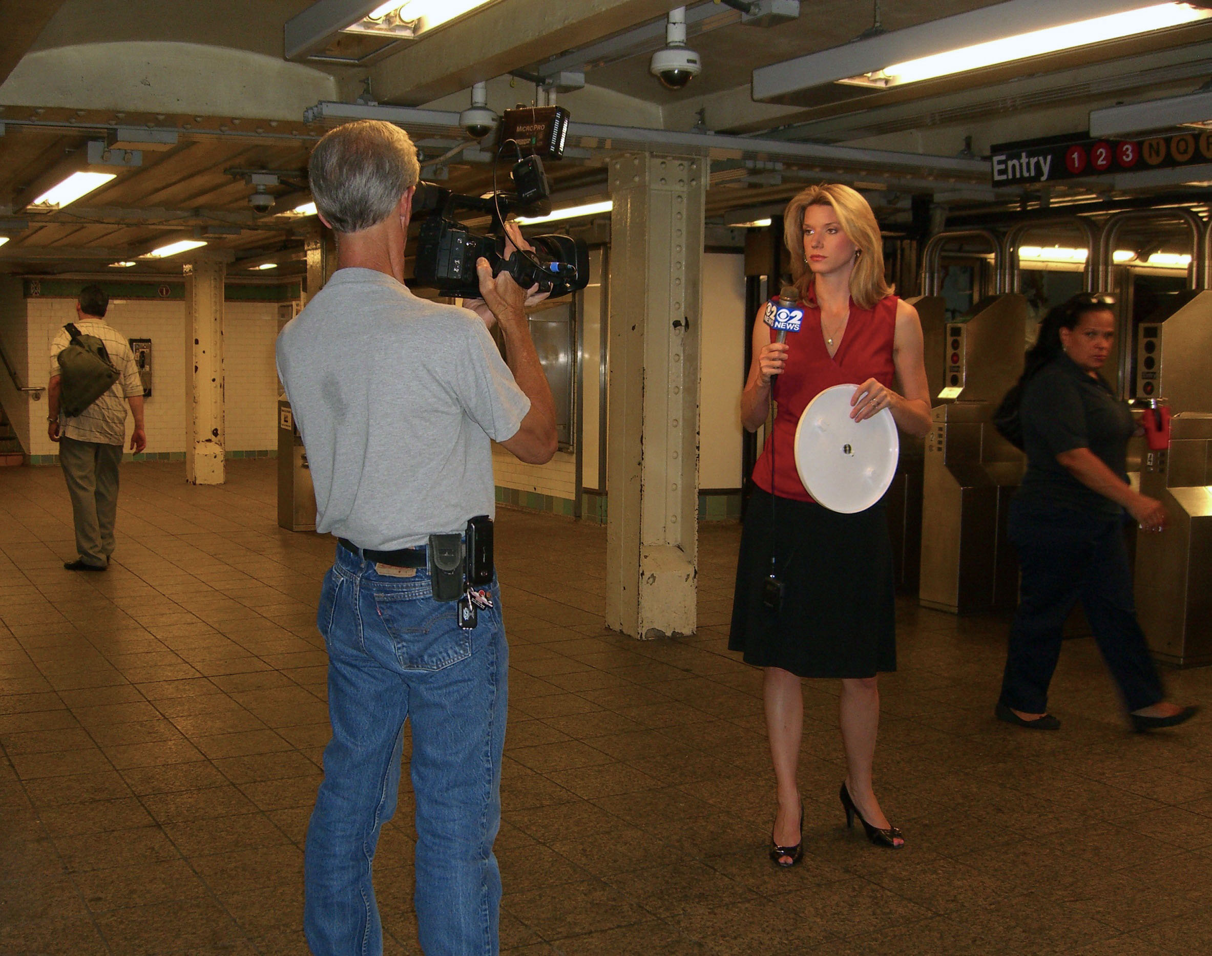 New York's WCBS-TV reporter Kathryn Brown reports on the Summer 2012 North American heat wave from the 42nd Street Times Square Subway station early in the morning of July 18, 2012. This photo was created by Luigi Novi. It is not in the public domain, and use of this file outside of the licensing terms is a copyright violation.